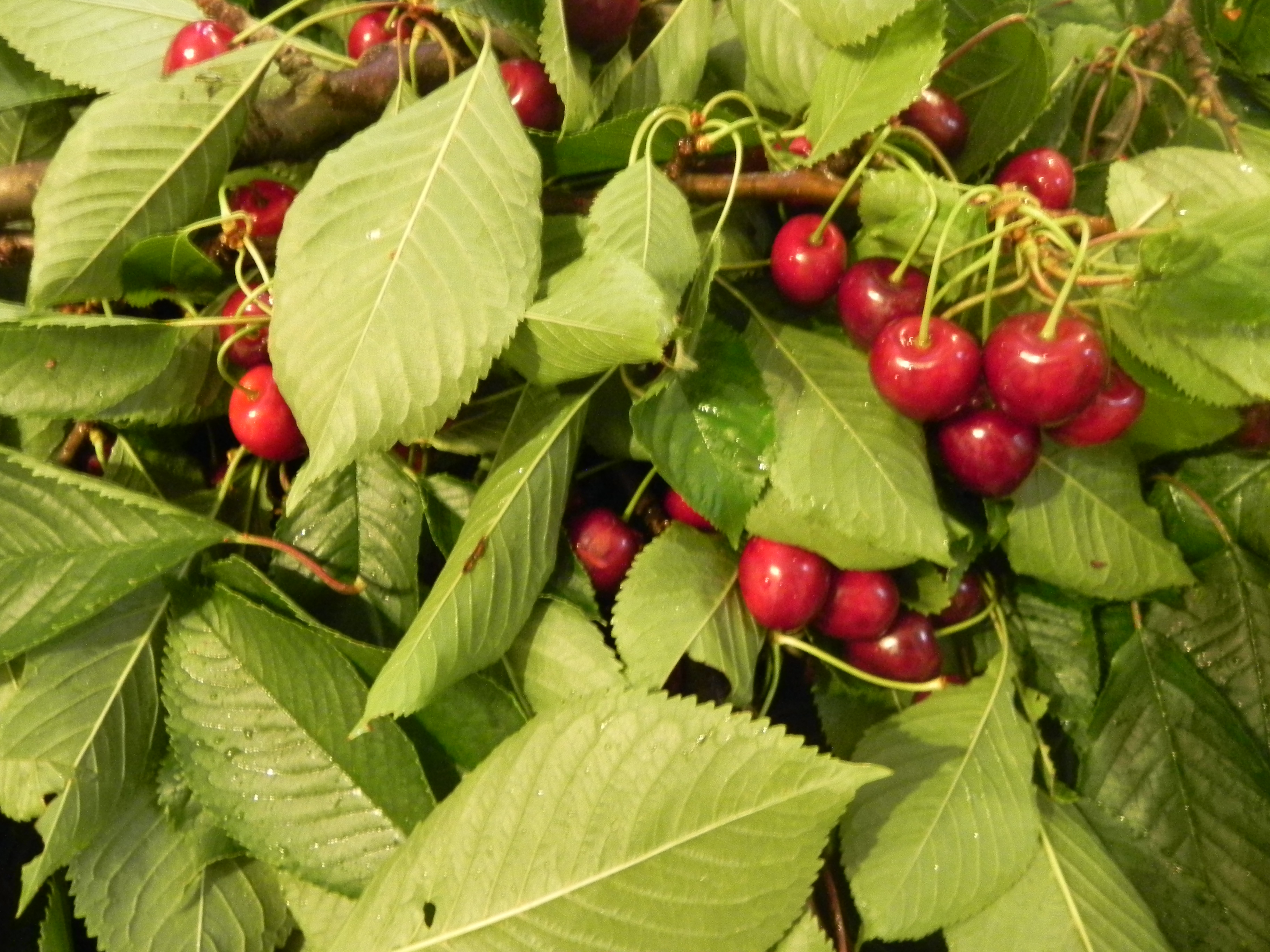 prunus avium twigs